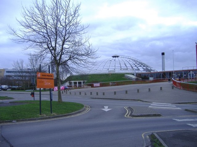 Oasis leisure centre The swimming pool, enclosed by a huge dome, is currently undergoing refurbishment.